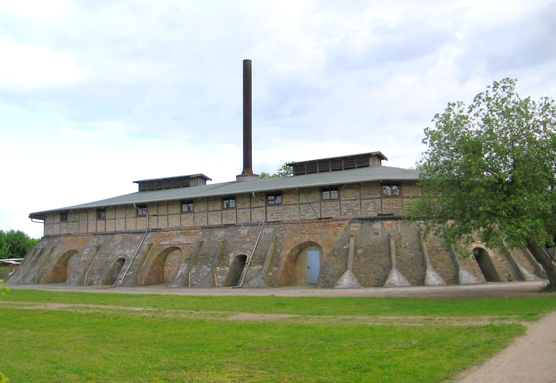 Hoffman continuous kiln in brickyard museum at Zehdenick, Germany